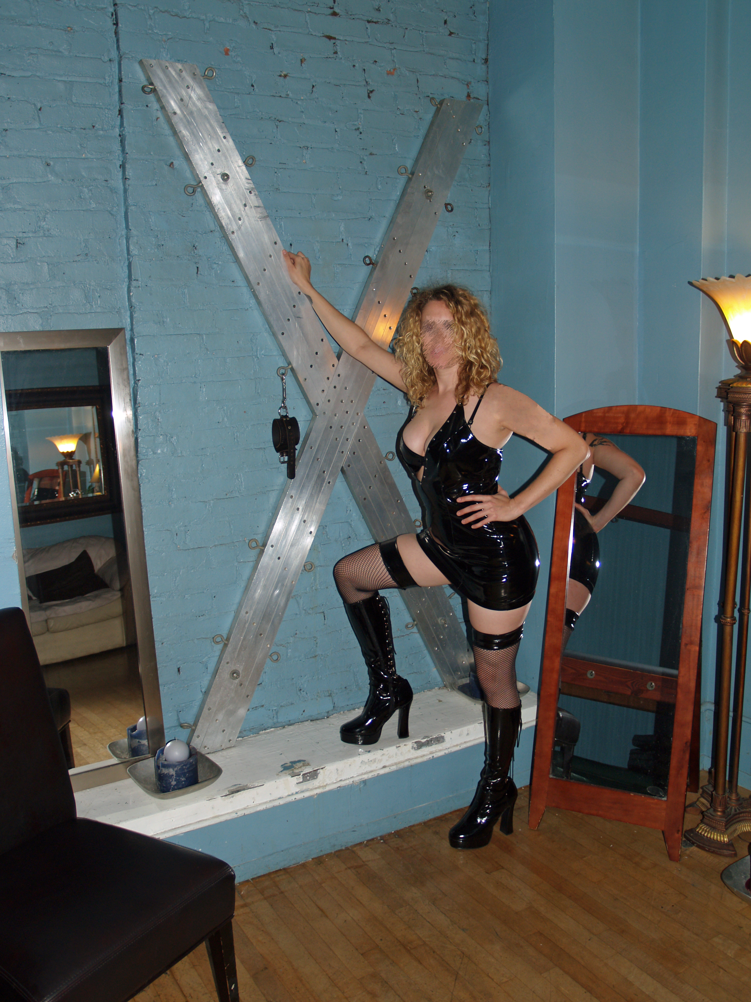 St. Andrew's Cross in an S&M Dungeon, by David Shankbone